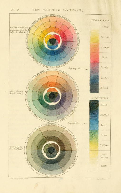 Color theory of Charles Hayter, Plate II (mixing of tints)